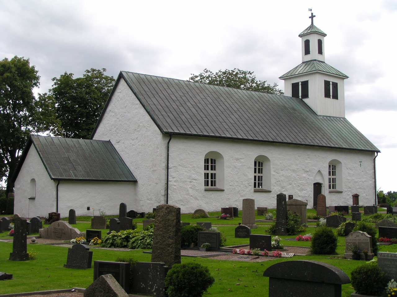 Breared's church in Halland, Sweden